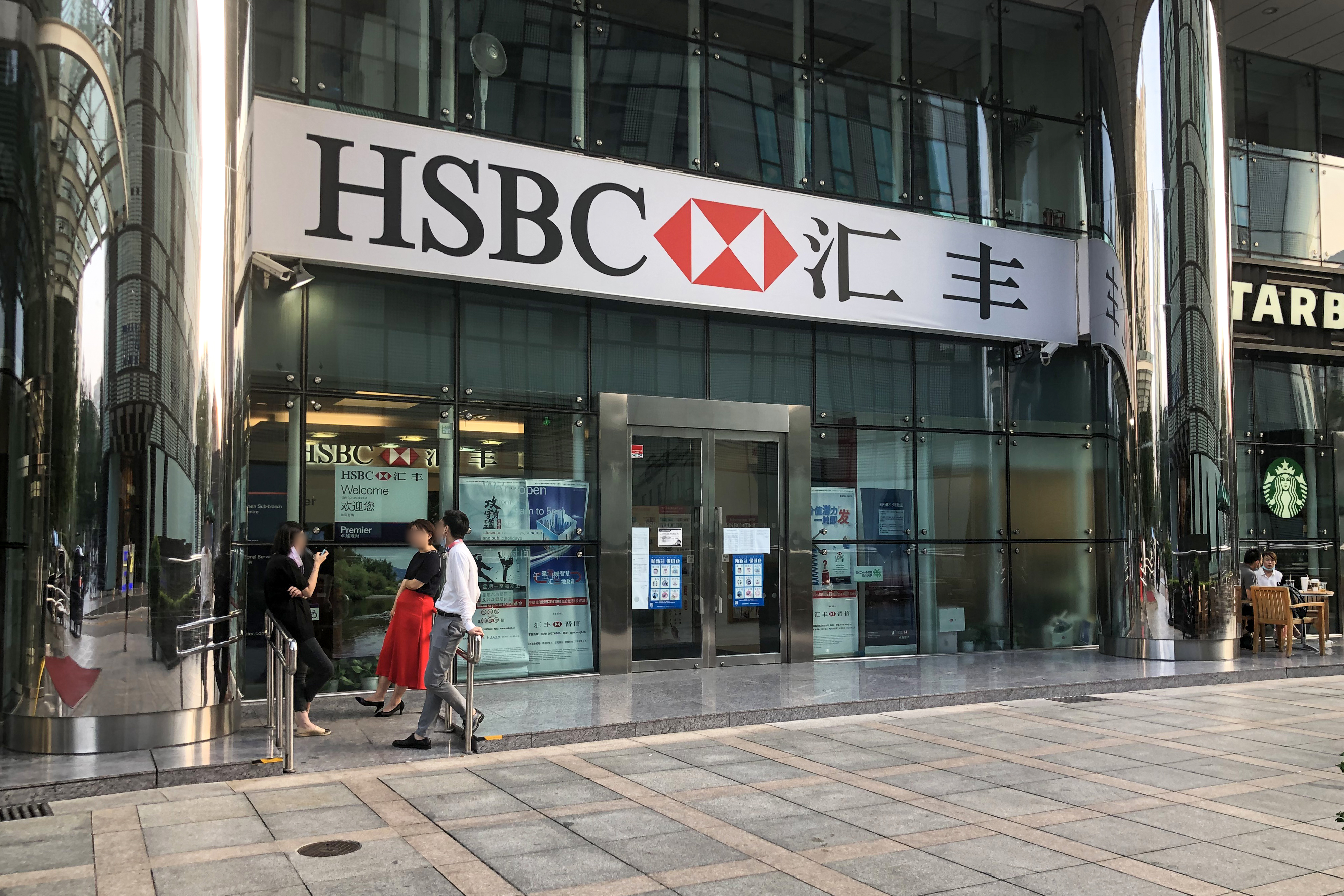 Address given: UNIT 102, Guohua Investment Tower, 3 Dongzhimen South St.